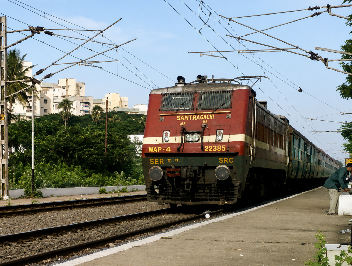 Yesvantpur-Howrah Express at Marripalem station, Visakhapatnam